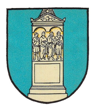 Coat of arms of Augsburg-Oberhausen, Germany